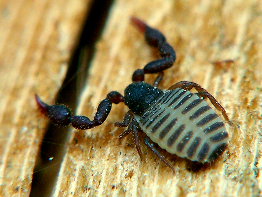 Unknown species of pseudoscorpions, probably belonging to the family Chernetidae (genus Allochernes?).